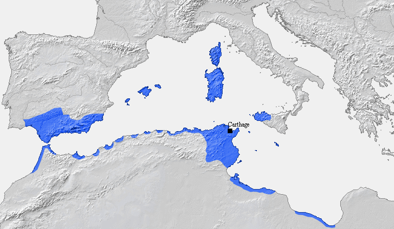 Location of Carthage and Carthaginian influence sphere before the First Punic War (264 BC) Source: Self-made, based on Putzger Atlas und Chronik zur Weltgeschichte, Paris, 2008 Template: [1] Author: Rayman3640